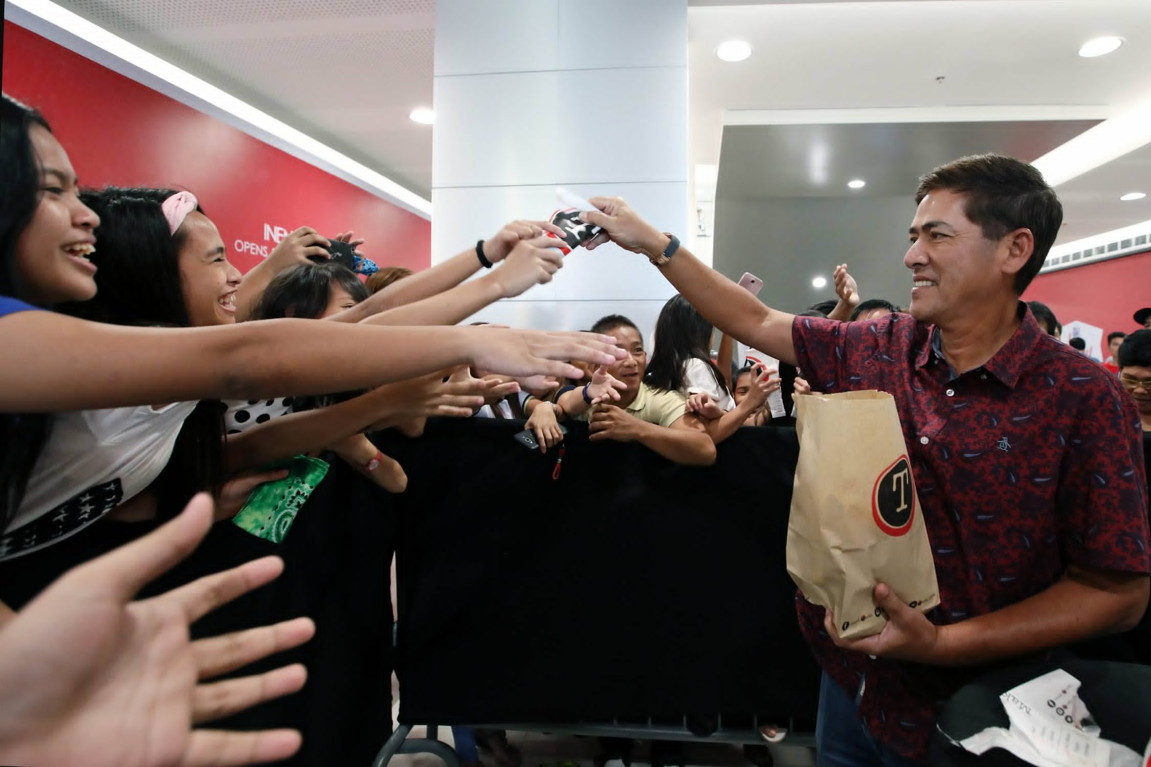 Eat Bulaga host and comedian Vic Sotto gives out free shawarma during the grand opening of Turks Shawarma at the second floor of SM Cherry Antipolo City on Sunday (July 23, 2017).